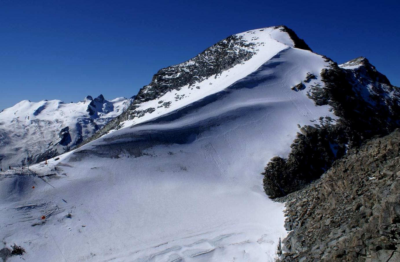 Corvatsch viewed from the Corvatsch station